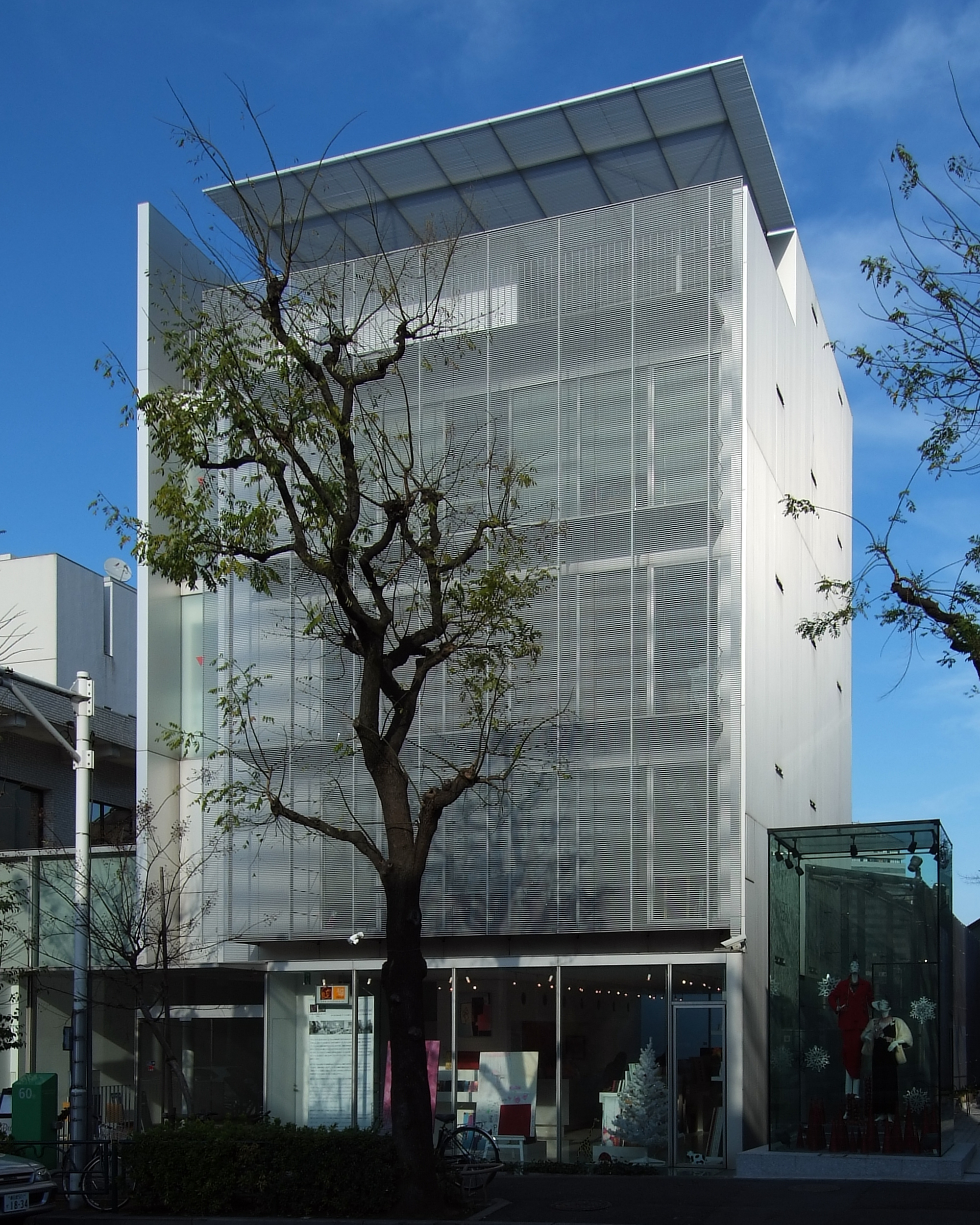 Hillside West, at Daikanyama Tokyo Japan, design by Fumihiko Maki in 1998.